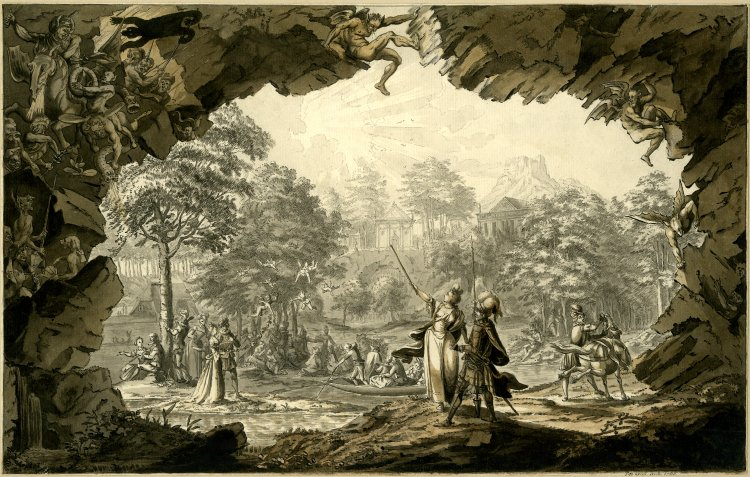 view from within a cave showing an enchantress with an armed knight, and possibly a design for a stage set.